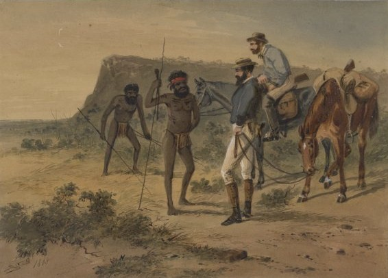 National Library of Australia picture nla.pic-an2377282. 'Horrocks's first interview with hostile blacks N. west of Spencers [i.e. Spencer] Gulf'.